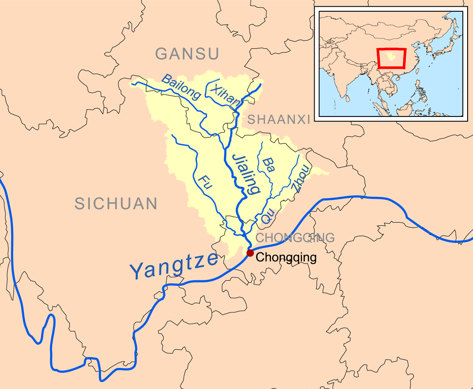 This is a map of the Jialing River drainage basin.